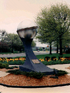 Time capsule at NASA Glenn Research Center. Capsule placed January 23, 1991 in celebration of the 50th anniversary of the groundbreaking for the Center and is scheduled to be opened on January 23, 2041. The facility was named the Aeronautical Engine Research Laboratory at the time of groundbreaking and the Lewis Research Center at the time of placement of the time capsule.